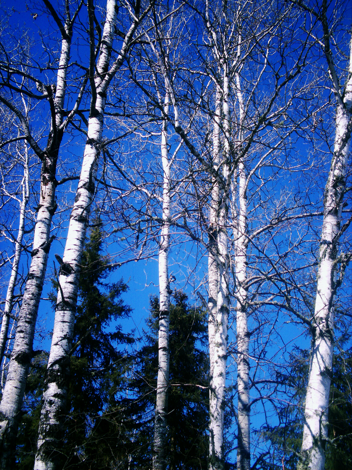 Birch trees near Ely, MN.